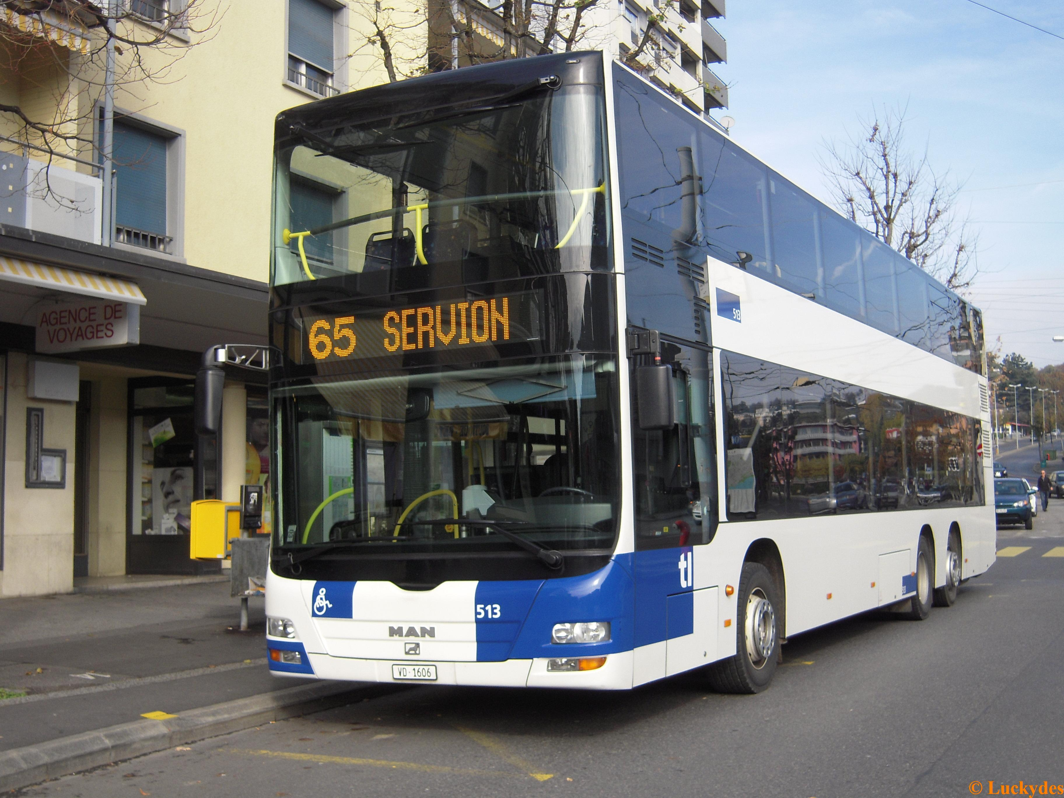 MAN Lion's City DD bus (#513) in Lausanne, Switzerland.